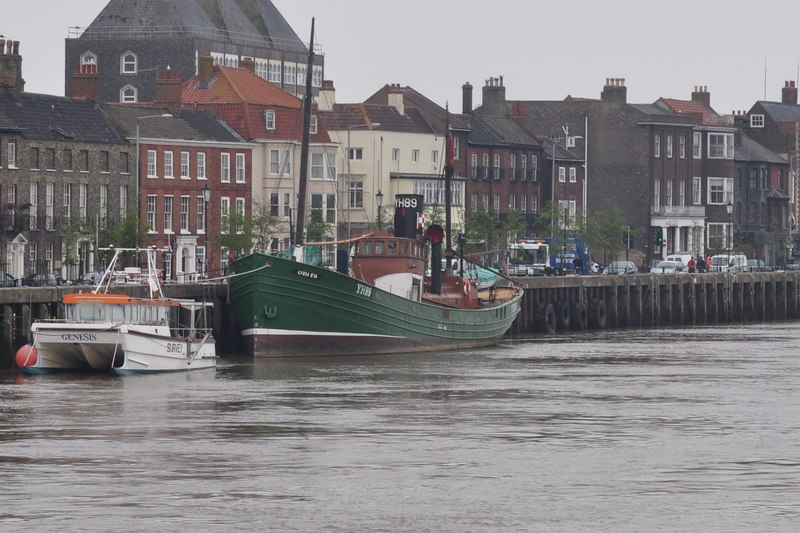 The YH89 Lydia Eva Steam Trawler at Great Yarmouth, near to Great Yarmouth, Norfolk, Great Britain. The Lydia Eva moored at Great Yarmouth , seen from the bridge.